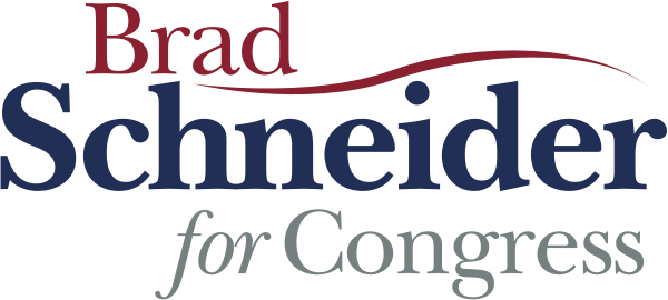 Brad Schneider for Congress (2016)